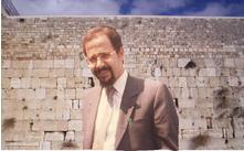 Other information This has been published with full consent of the owner. This is a picture of Rabbi Ahron Daum at the Western Wall in Jerusalem. The image's format, is due to its edited version, photographed from an old album.